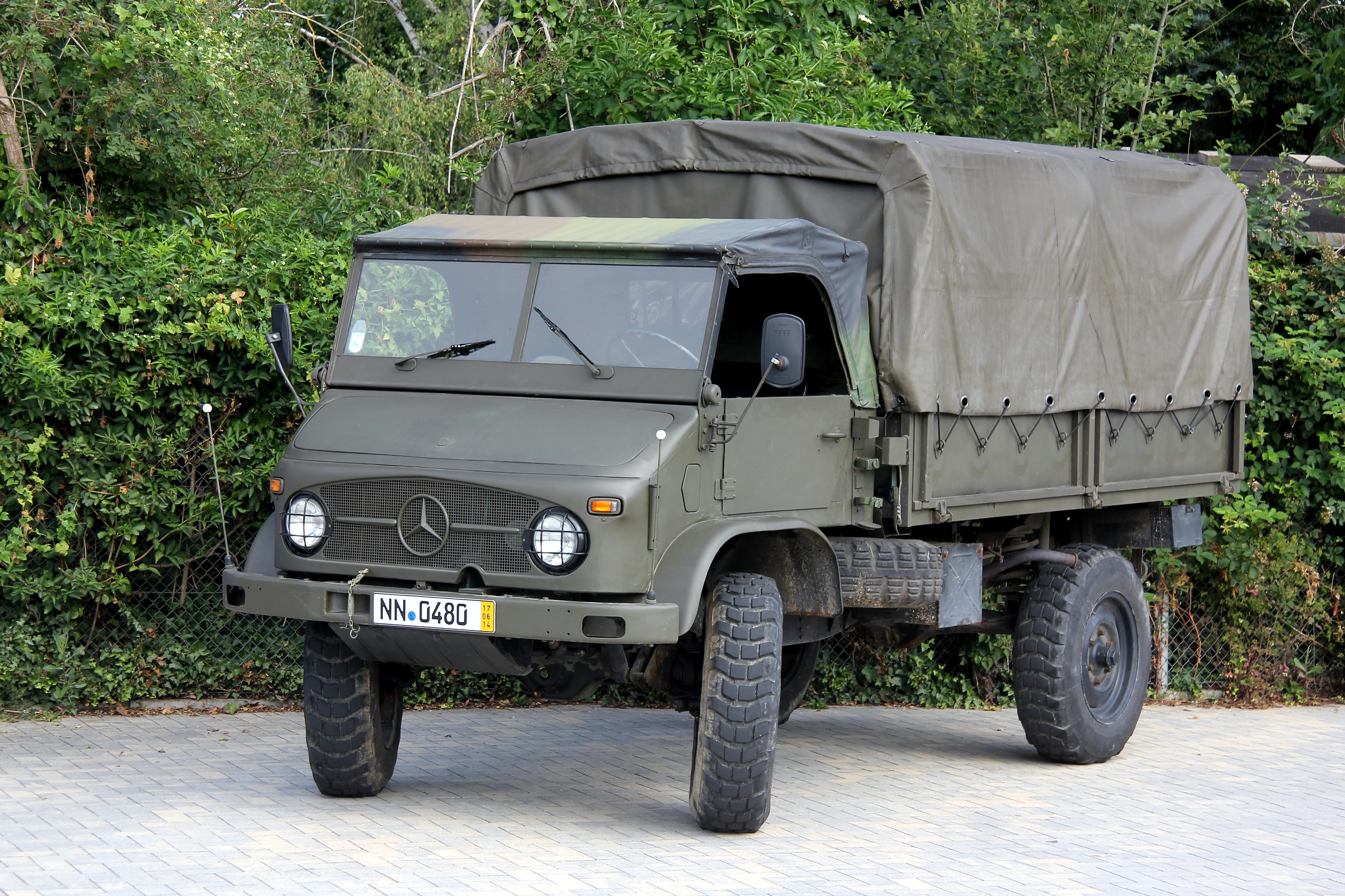 Unimog S 404, produced 64,242 times from 1955 to 1980. License plate changed